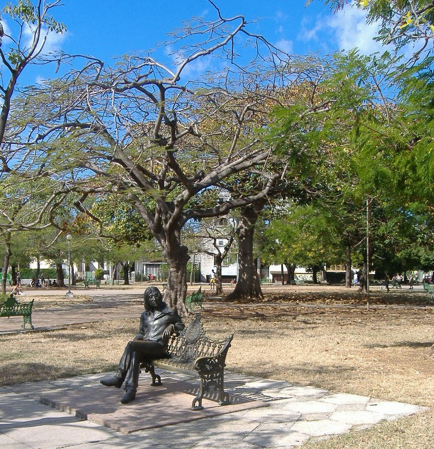 John Lennon's Park, Vedado, Havana, Cuba